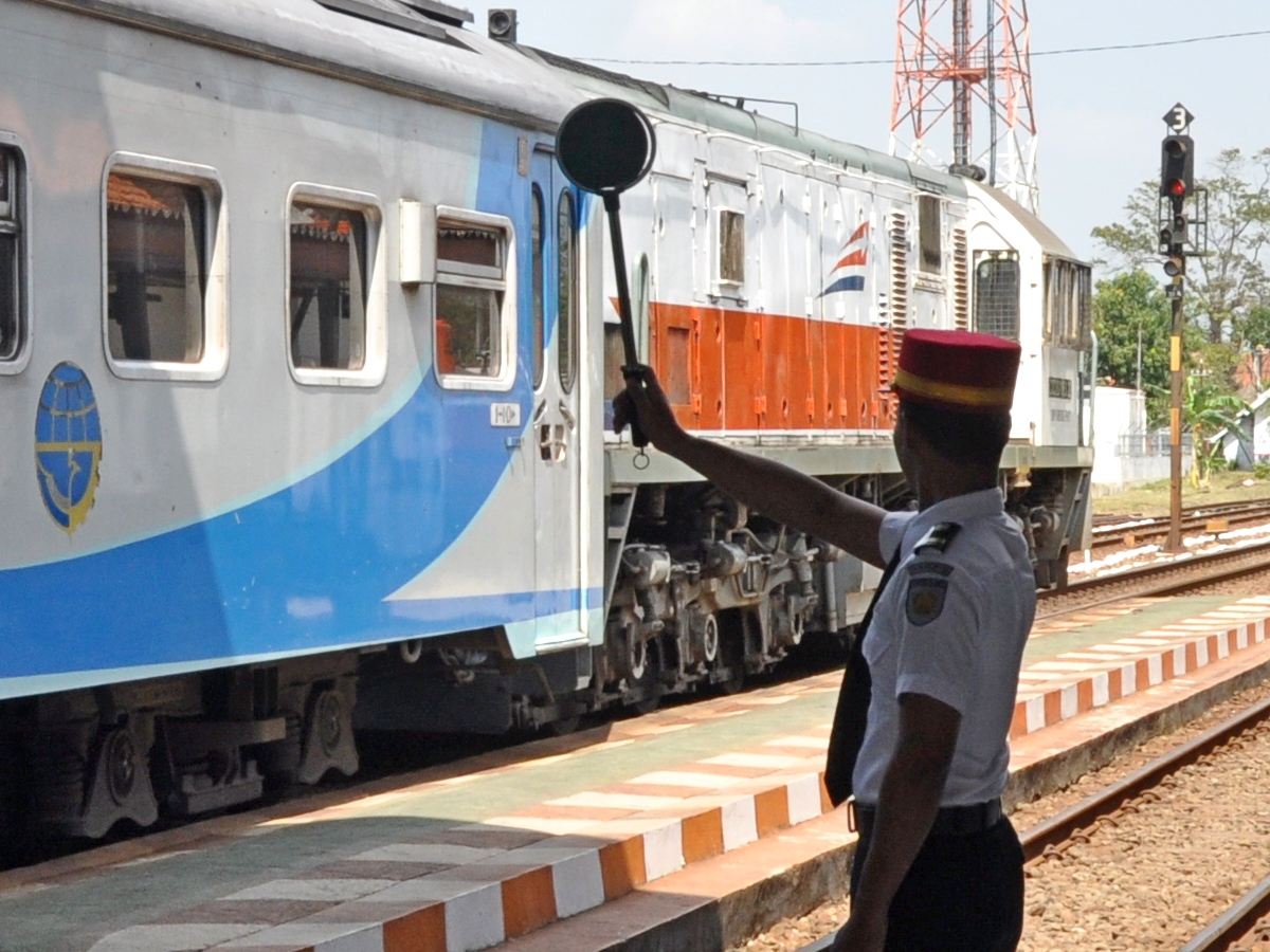 Semboyan 40 (Sign no 40) launched by a train dispatcher officer at Kebumen train station, Central Java, Indonesia.